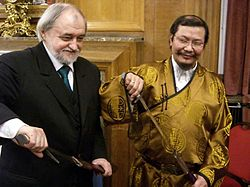 Ganbold Davaakhuugiin with Istvan Tarr